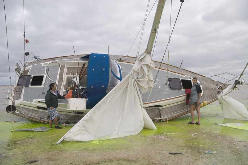 sailboat wreck at North Minerva Reef, Tonga, Pacific Ocean